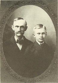 Harry de Cleyre, son of Voltairine de Cleyre, and his father, James B. Elliott.